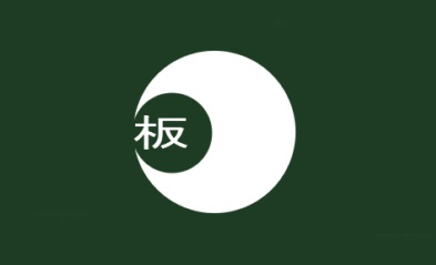 Flag of Itano Tokushima